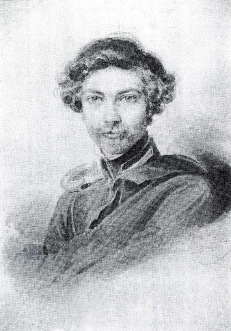 Ferdinand Malaisé by Franz Xaver Winterhalter (Pencil & Grey Wash, 1827)